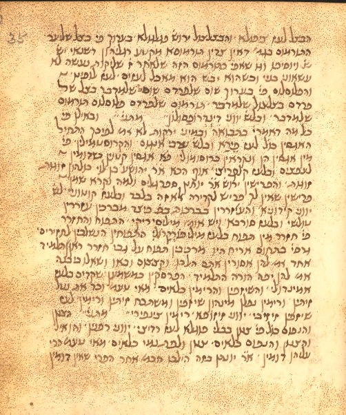 Manuscript Or. 6712 at the British Library, folio 035r, showing Mishnah commentary (Kil'ayim 1:4) written by Rabbi Isaac ben Melchizedek of Siponto